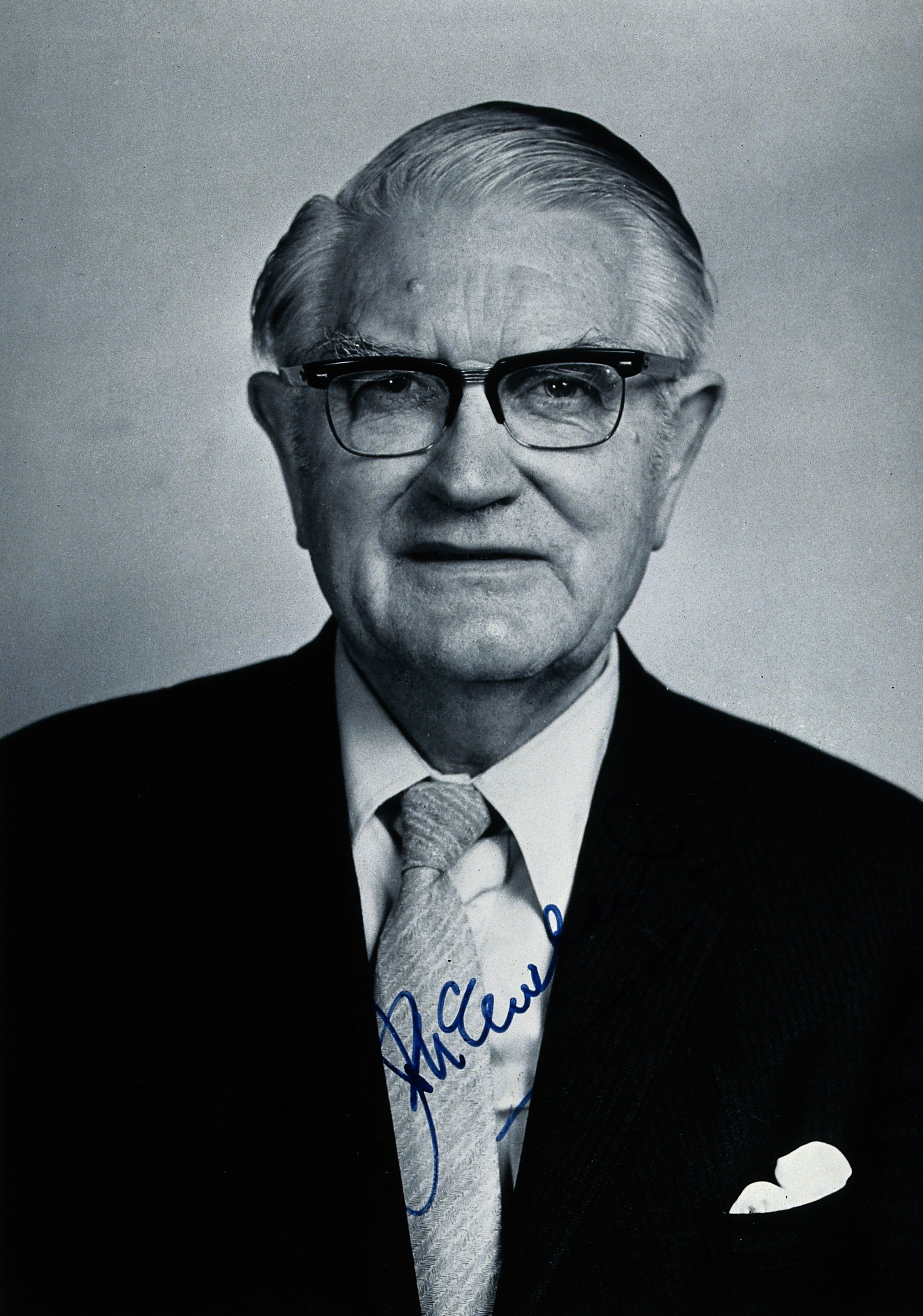 Sir John McMichael. Photograph. Iconographic Collections Keywords: portrait photographs